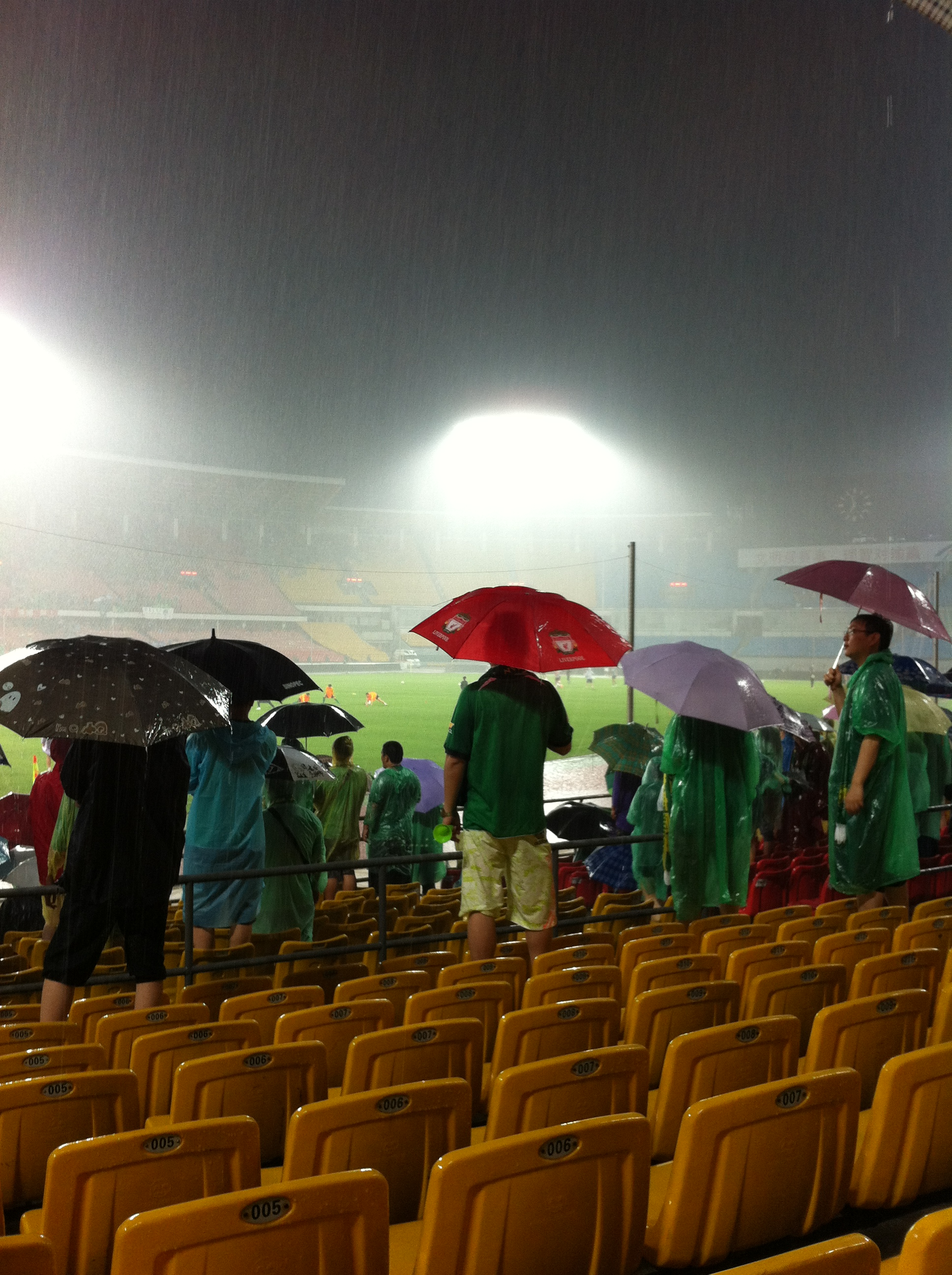 Beijing Guoan vs Hangzhou Greentown in the (in)famous 7-21 rain, and the result was 0-2.